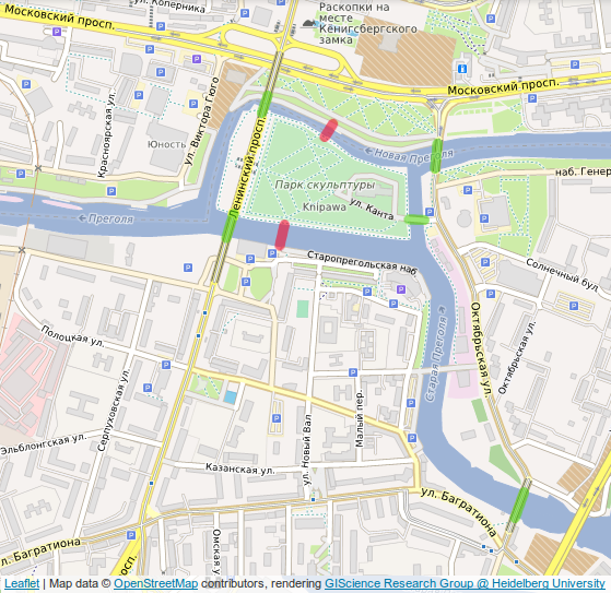 The Seven Bridges of Königsberg on the modern map of Kaliningrad. A green highlighting marks the remaining bridges, and a red highlighting marks the locations of destroyed ones.